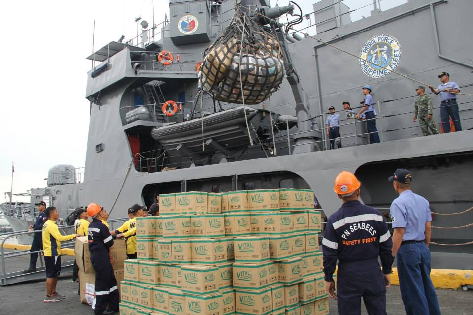 Relief goods being loaded onto BRP Ramon Alcaraz for her first ever mission, that is Humanitarian Assistance and Disaster Response operations for the victims of super typhoon “Yolanda” in Eastern Visayas.